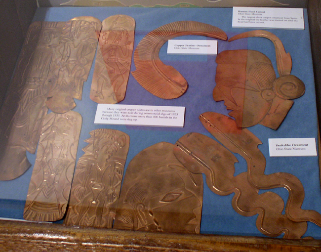 Replicas of repousse copper plates found at Spiro Mounds Oklahoma.